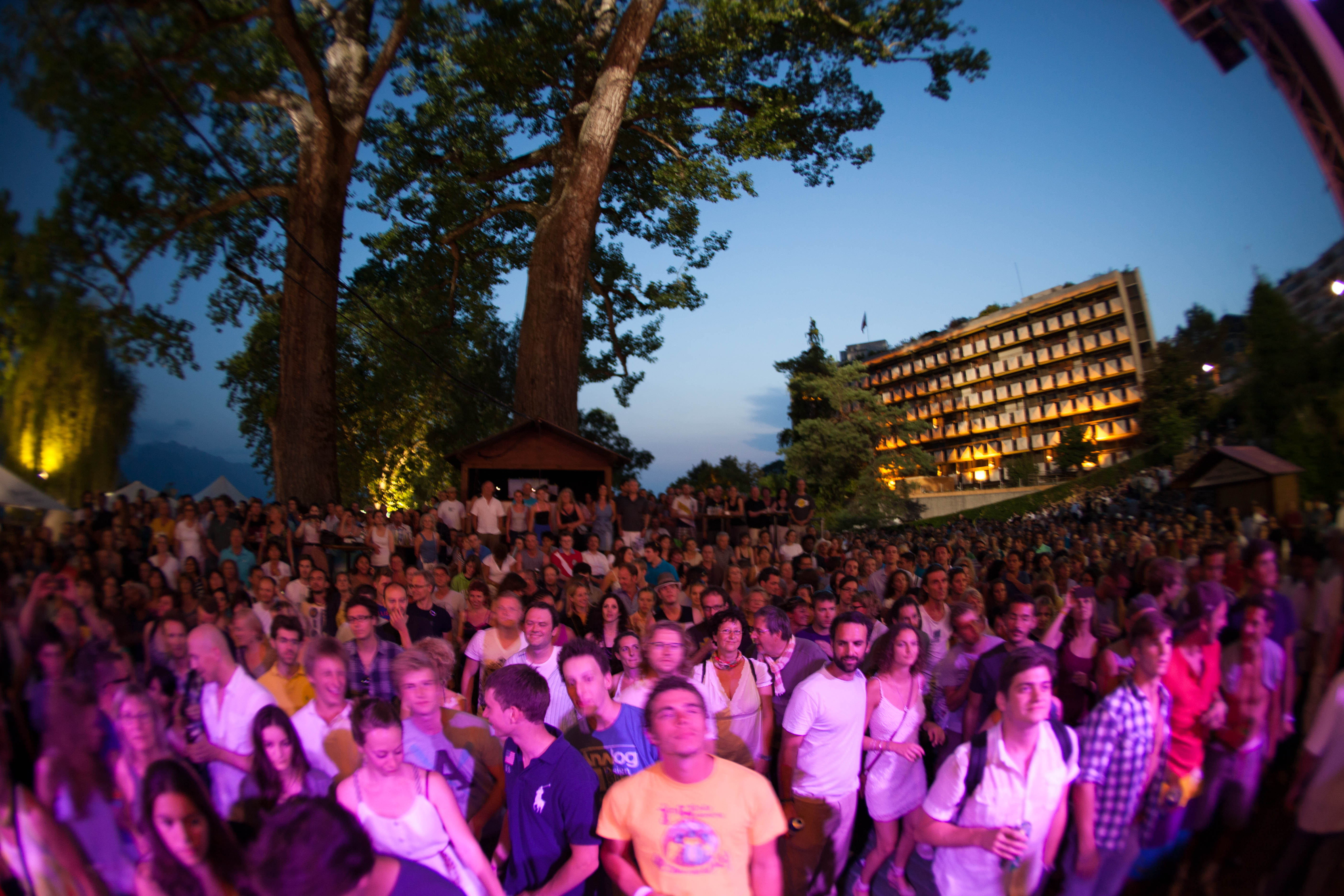 Audience waiting for Brandy Butler & The Fonxionaires, Montreux, Switzerland